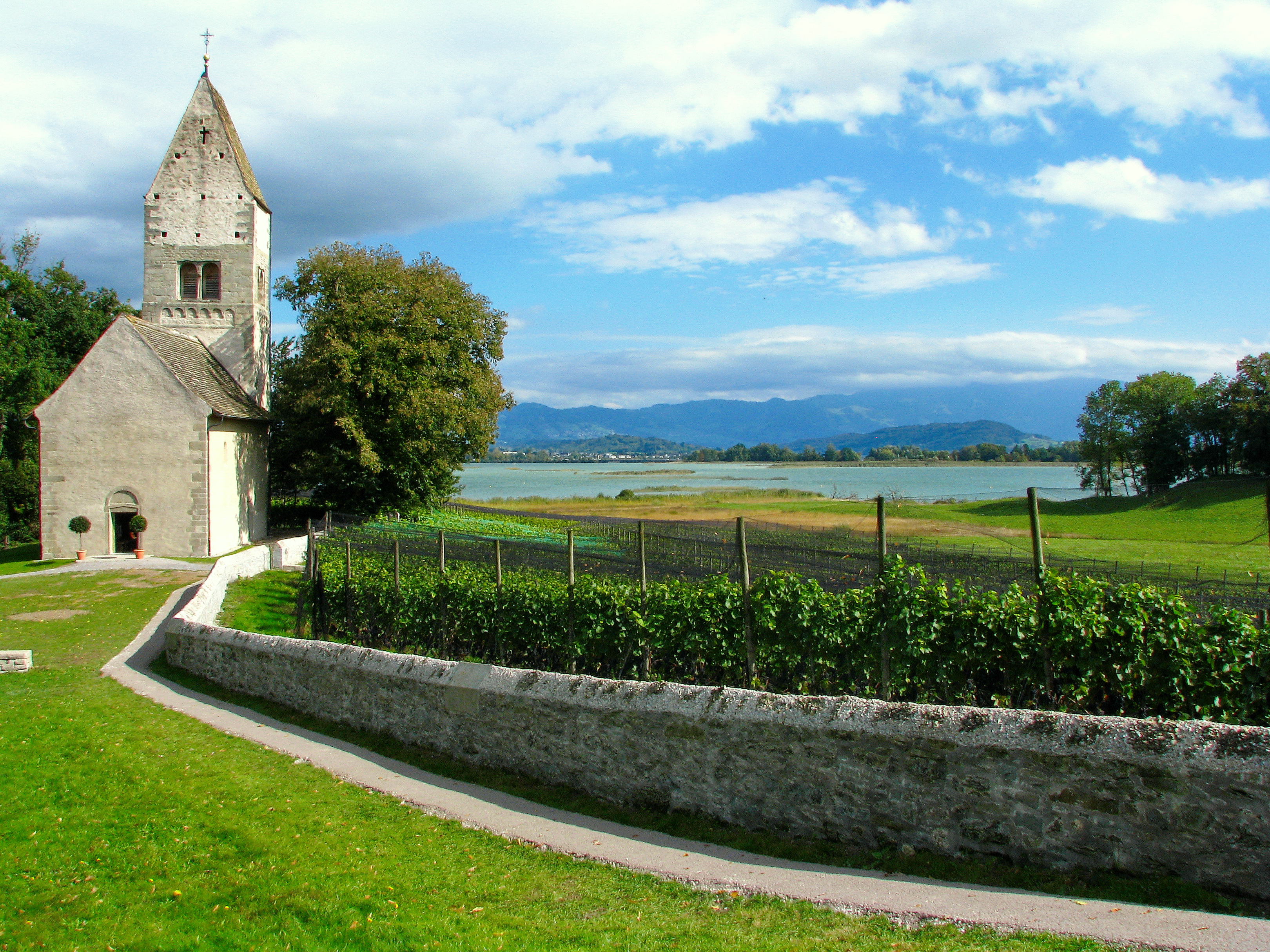 Lake Zürich, Ufenau island : St. Peter and Paul (1142), where Ulrich von Hutten (* 1488; † 1523) is buried. In the background (to the right) Lützelau island, in the middle (to the left) Rapperswil (SG).